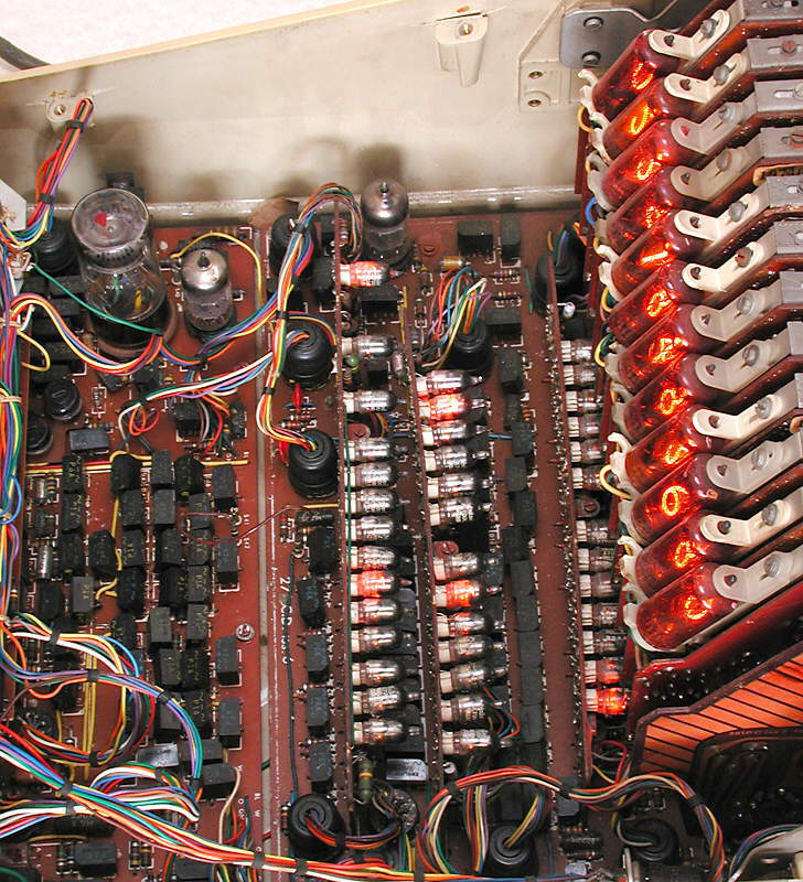 Inside an operating ANITA Mk VIII (aka Mk 8) electronic calculator, which together with the Mk VII were the world's first electronic desktop calculators when launched in 1961. This photograph shows: The display on the right with a dozen nixie-type numerical indicator tubes, each mounted on the edge of a counter board. The daughter boards in the centre holding many cold-cathode switching tubes. Some of these are lit up (like neon lamps, to which they are related), which shows that they are in the "on" state. A GS10D Dekatron decade counter tube at top left (with a red mark on top), which is used to scan the keyboard for pressed keys. Two ECC81 double-triode vacuum tubes, or thermionic valves, to the right of the Dekatron. Many selenium diode packs, which are the black rectangular blocks. Warning: there are dangerously high voltages exposed when operating one of these machines like this with the covers open. Photograph taken by myself of a machine in my collection.